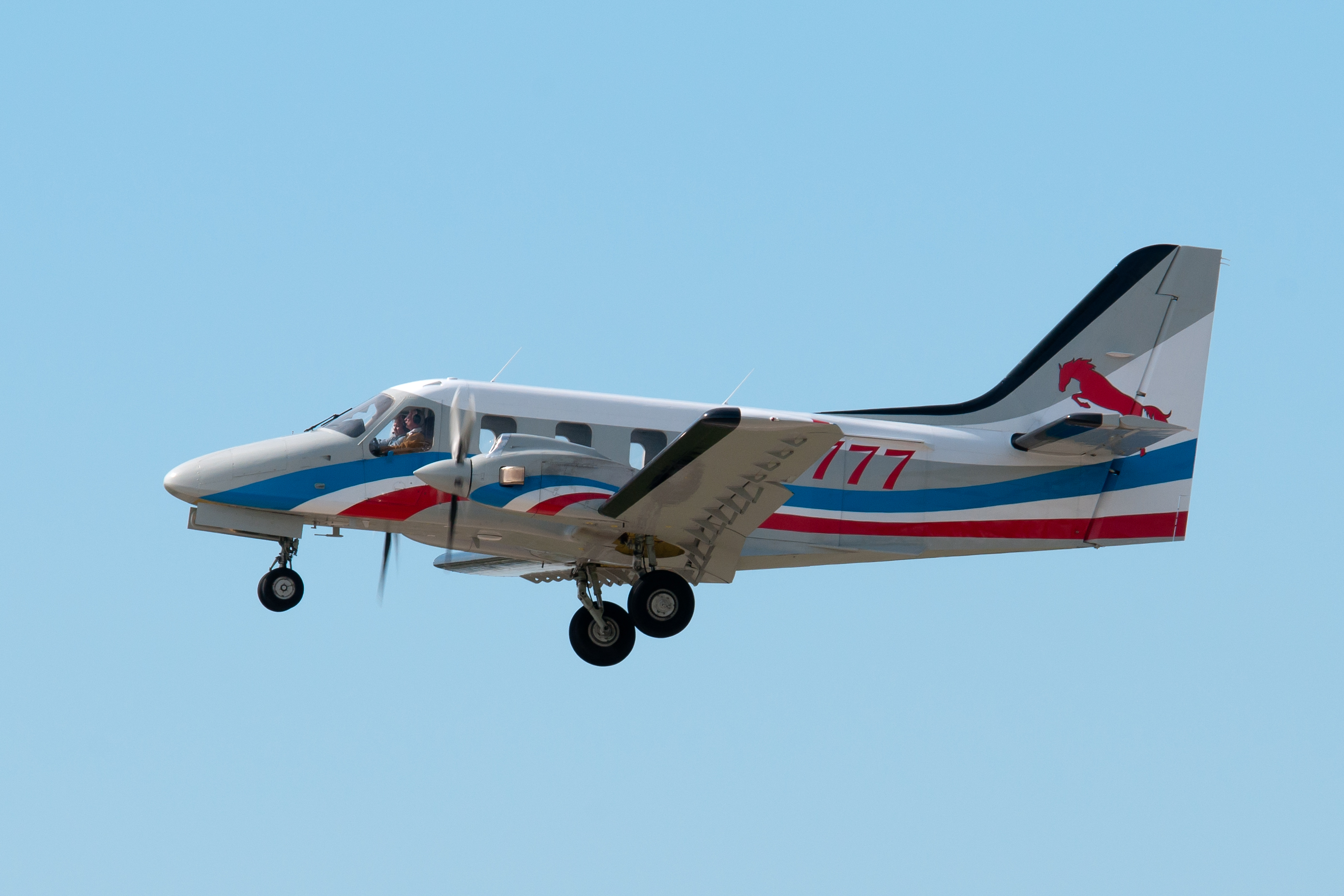 Rysuchok — twin-engine aircraft of light class at MAKS 2011 airshow